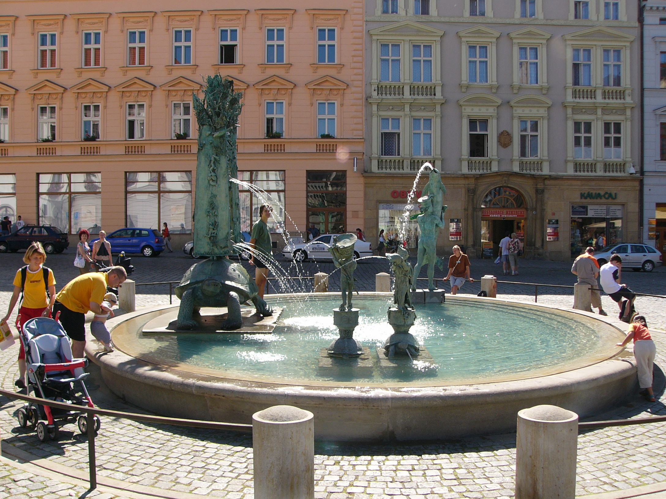 Fountain of Arion in Olomouc (Czech Republic).